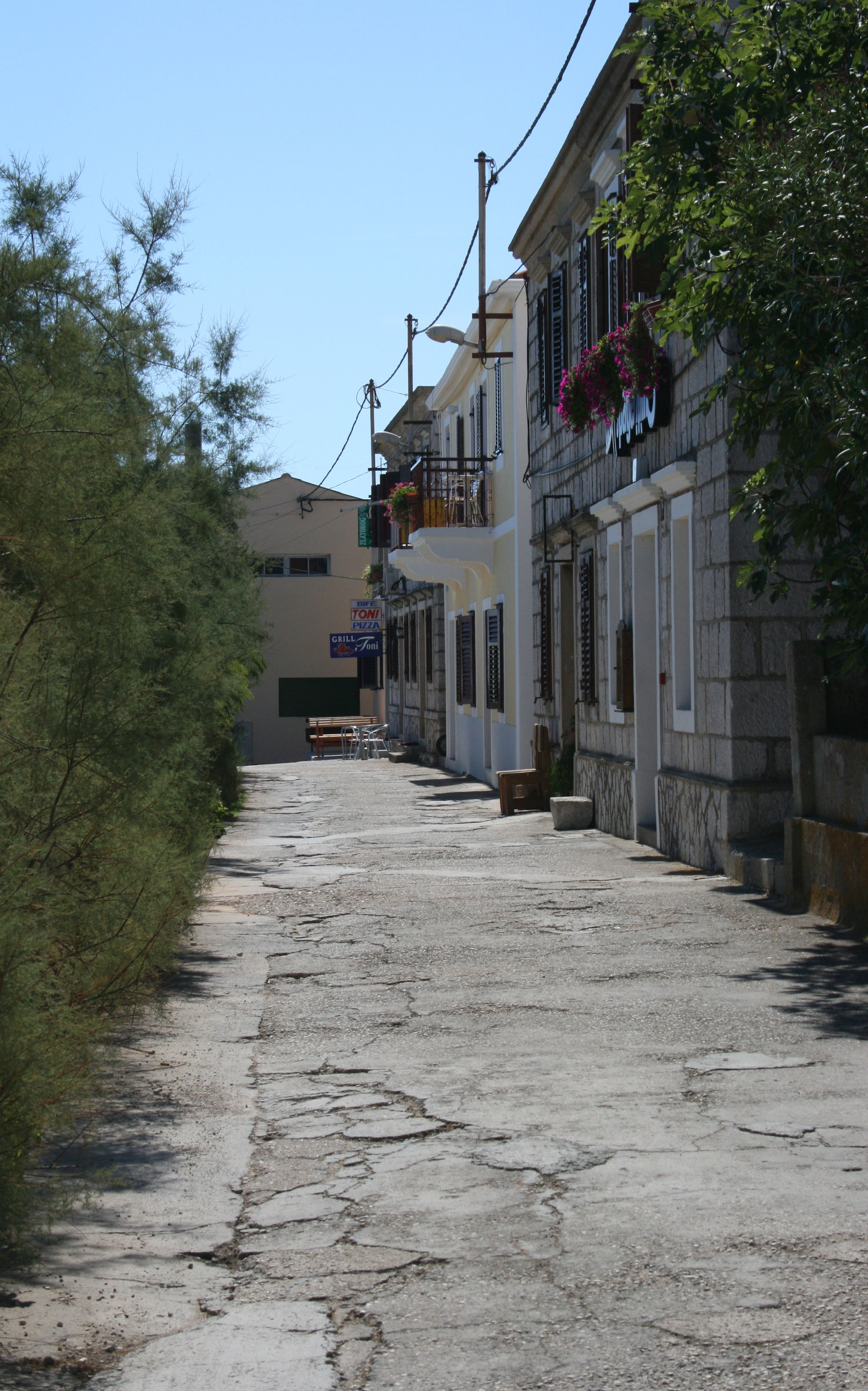 Rush hour in the main street, Sali, Dugi otok.